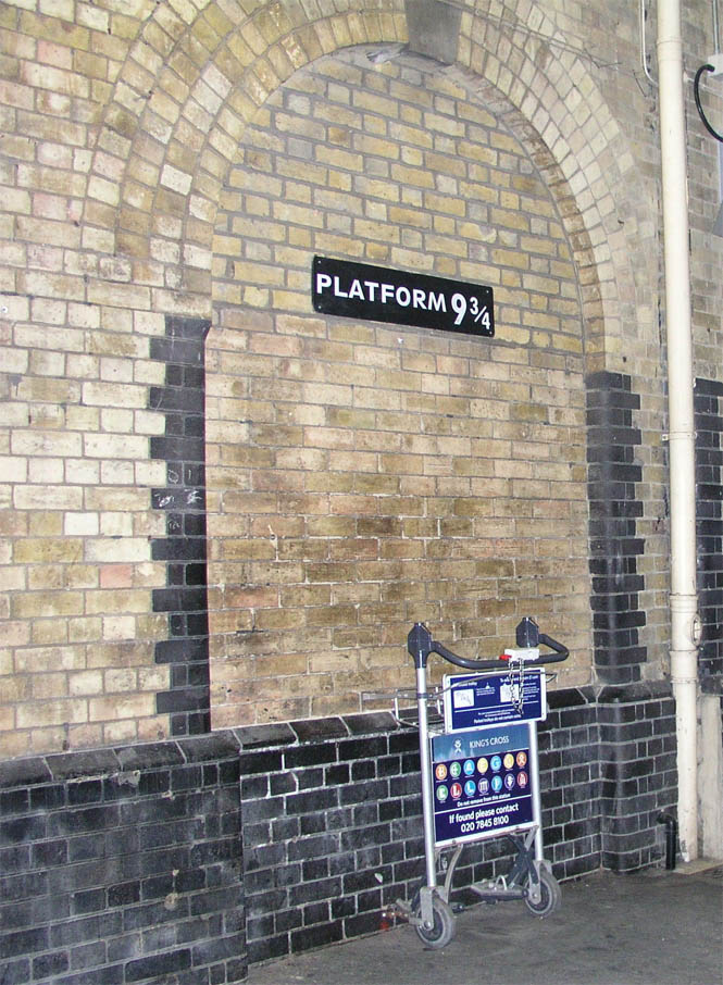 The platform 9¾ of King's Cross Station, London, UK